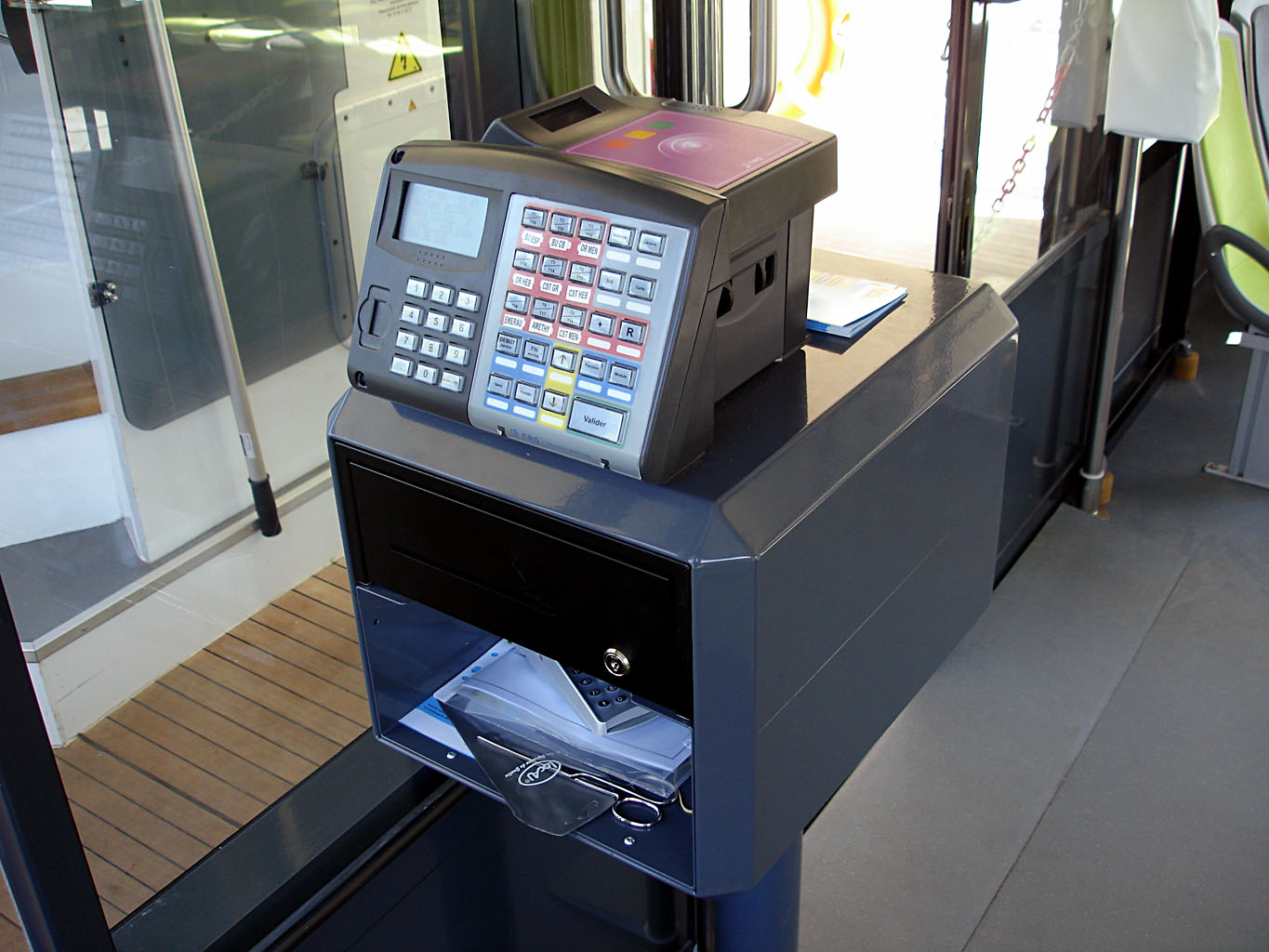 Ticket office, inside the river shuttle Voguéo, on the river Seine in Paris, France